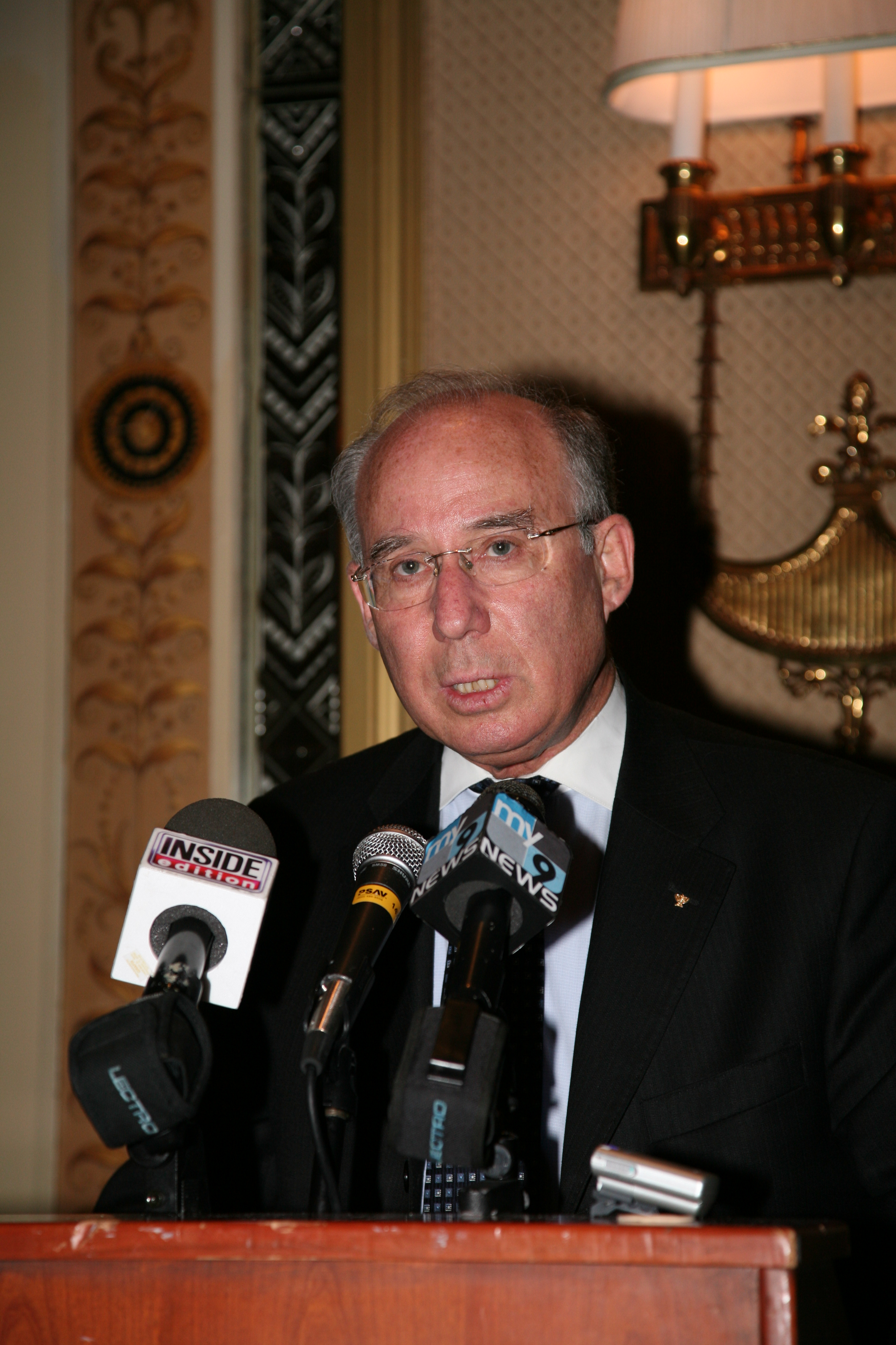 Jacob Frenkel at Press Conference